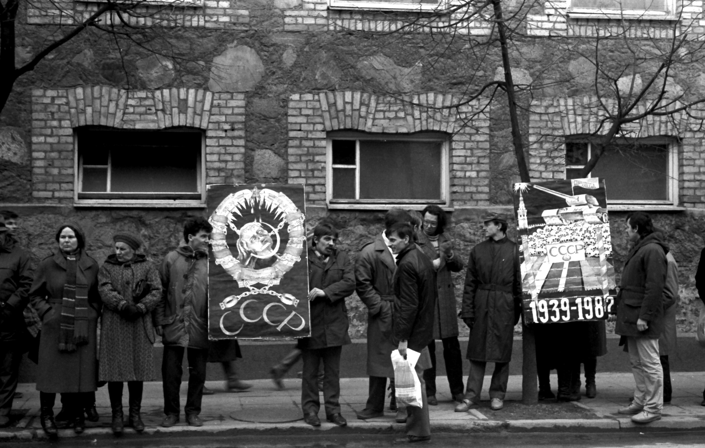 Picet agains soviet army in Šiauliai, 1989-02-23